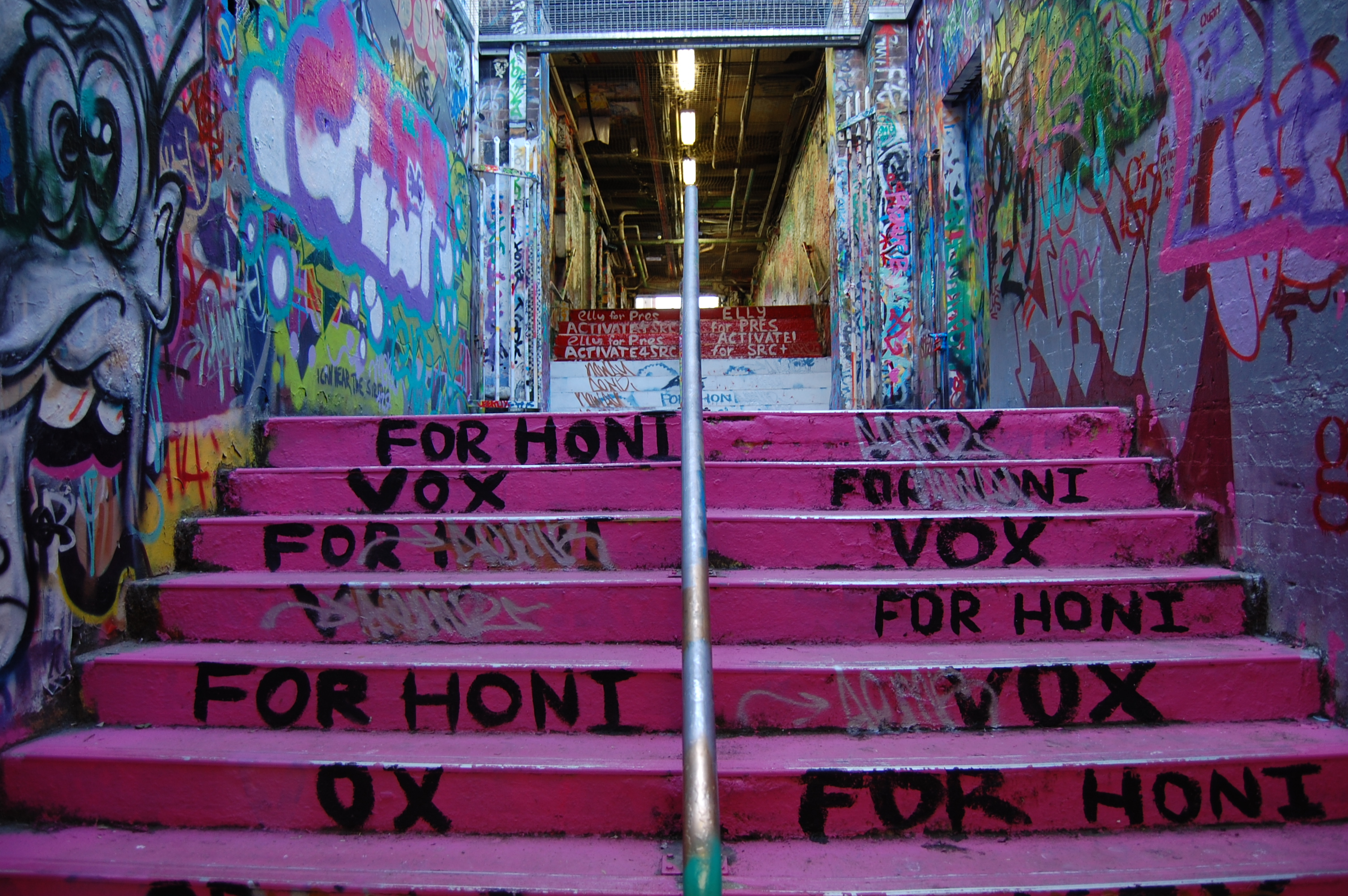 Graffiti Tunnel during student election, 2009. University of Sydney